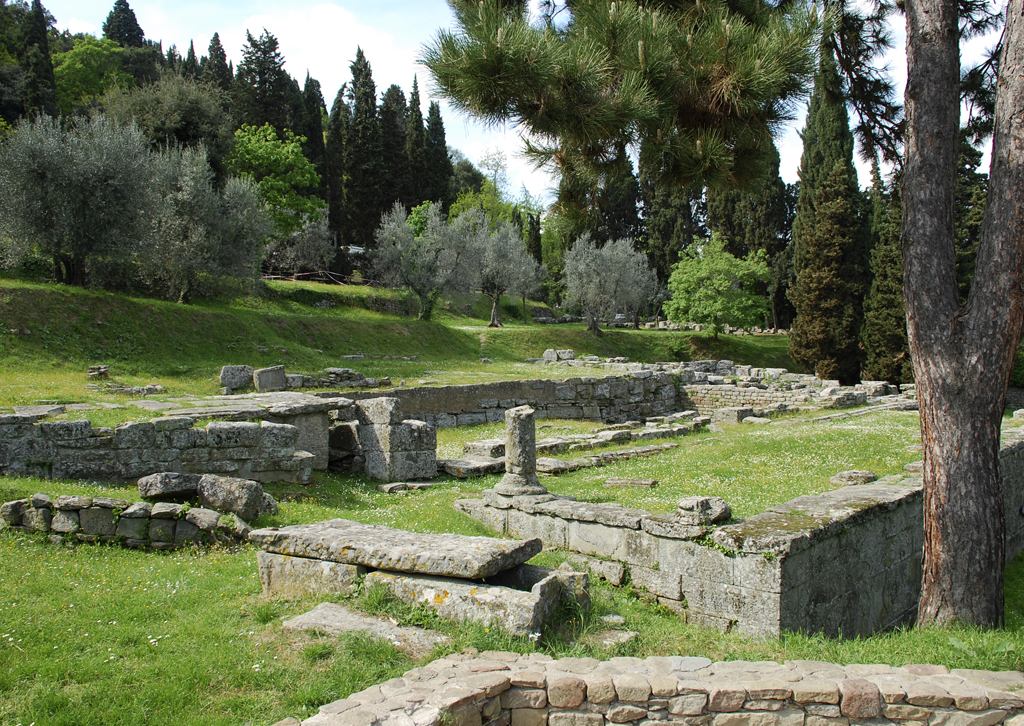 Fiesole archaeological site, Florence, Italy. Temples.